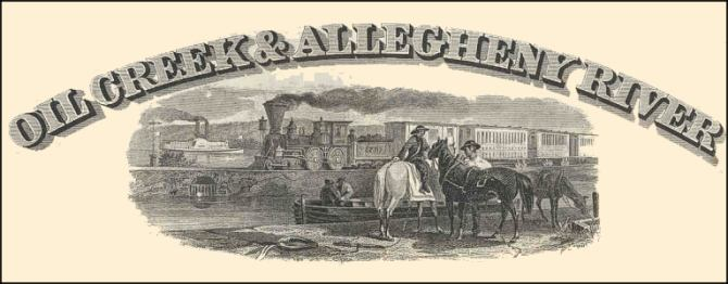 Blowup of the vignette appearing on an Oil Creek and Allegheny River Railway stock share certificate, issued ca. 1868-1876